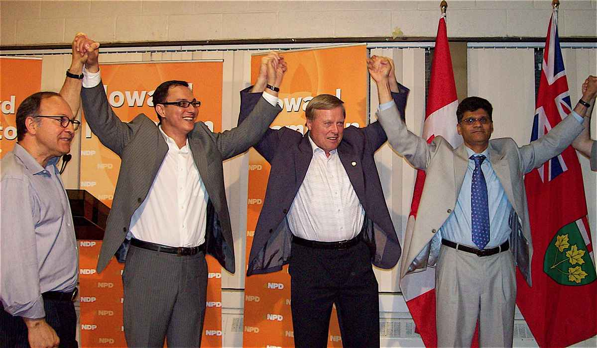 Mohamed Boudjenane being congrulated by fellow NDP polications and candidates at his nomination meeting in the Ontario electoral district of Etobicoke North. Pictured from left to right; Rosario Marchese, MPP Trinity–Spadina; Mohamed Boudjenane, candidate; Howard Hampton, Ontario NDP Leader; and Ali Naqvi, federal NDP candidate for Etobicoke North.